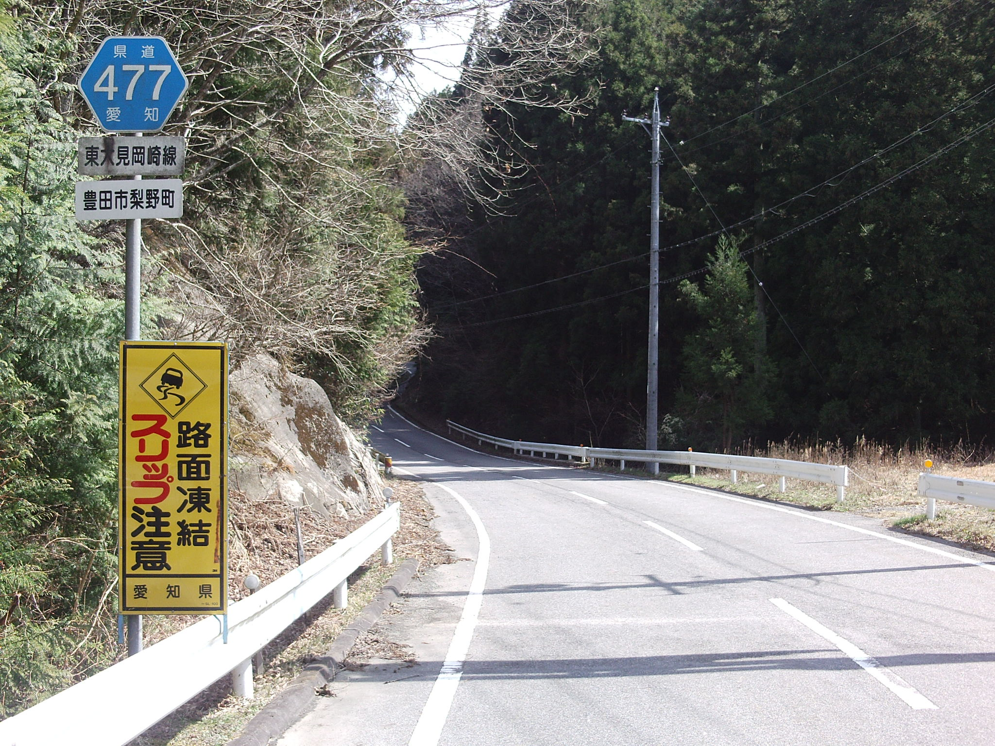 The Aichi Prefectural Road Route 477 in Nashinocho, Toyota City